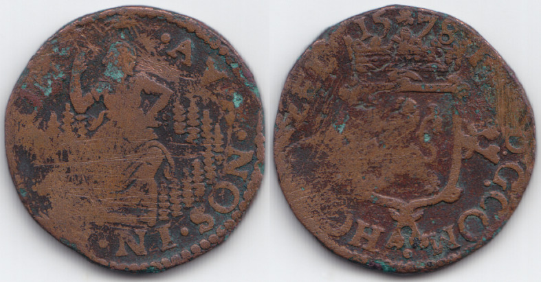 Coin oord (double duit), 1578 - Netherlands, province of Holland. Copper, diameter 23.5 mm, thickness 1.8 mm, weight 6.33 g. On the obverse is an image of a Dutch maiden.